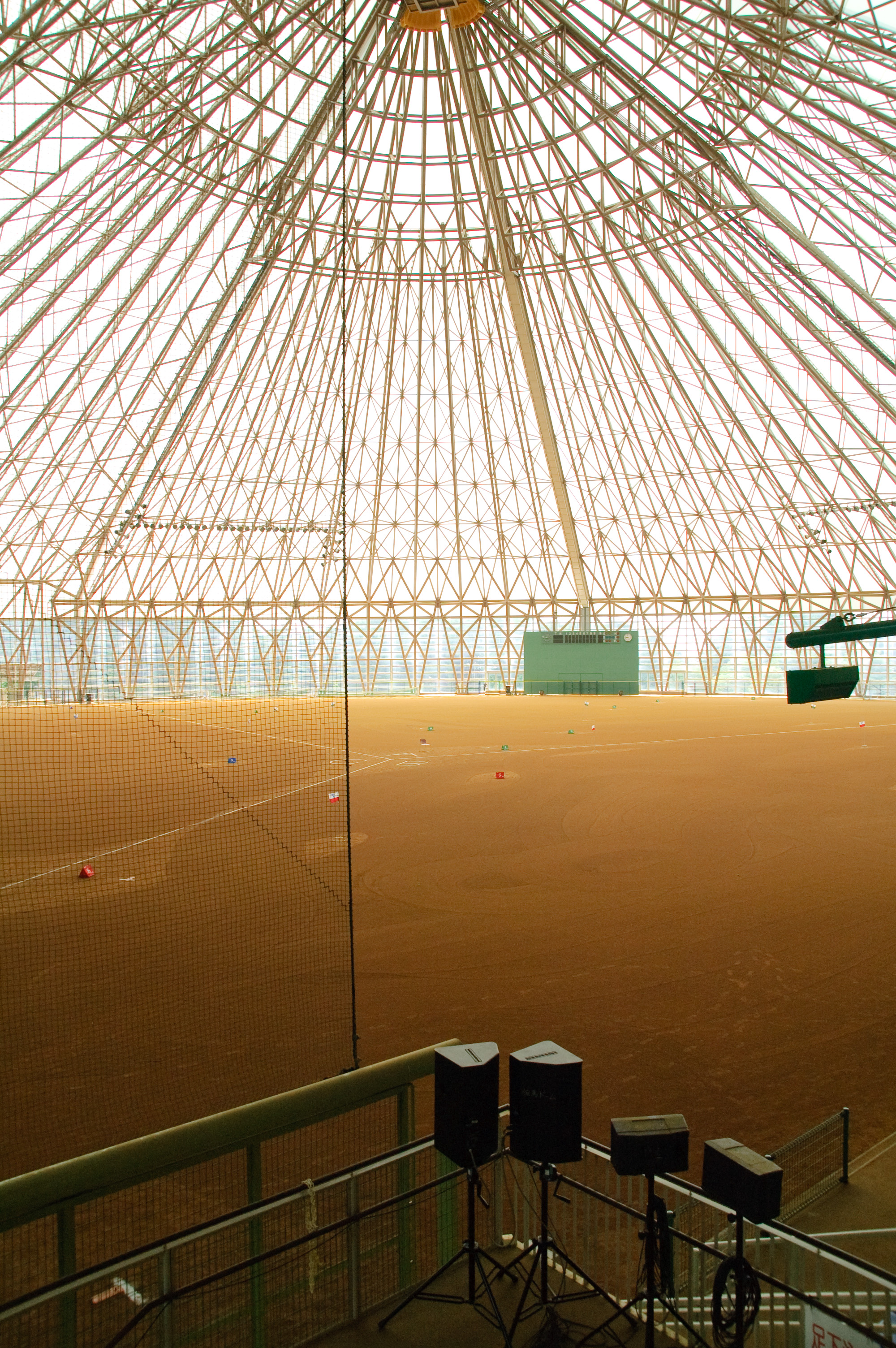 Hyogo prefectural Tajima dome